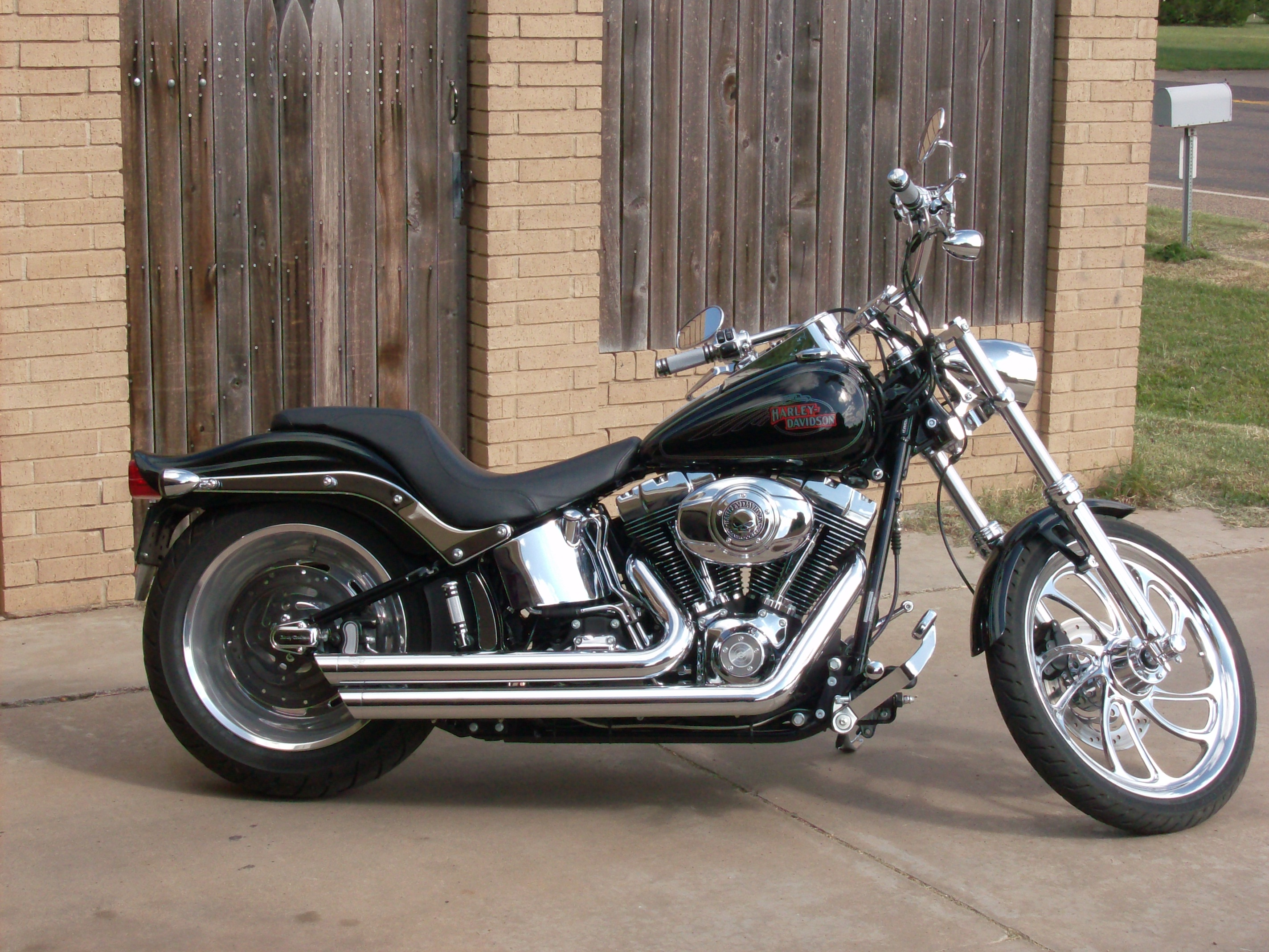 2008 Harley Davidson FXSTC Softail Custom by Chad Muse